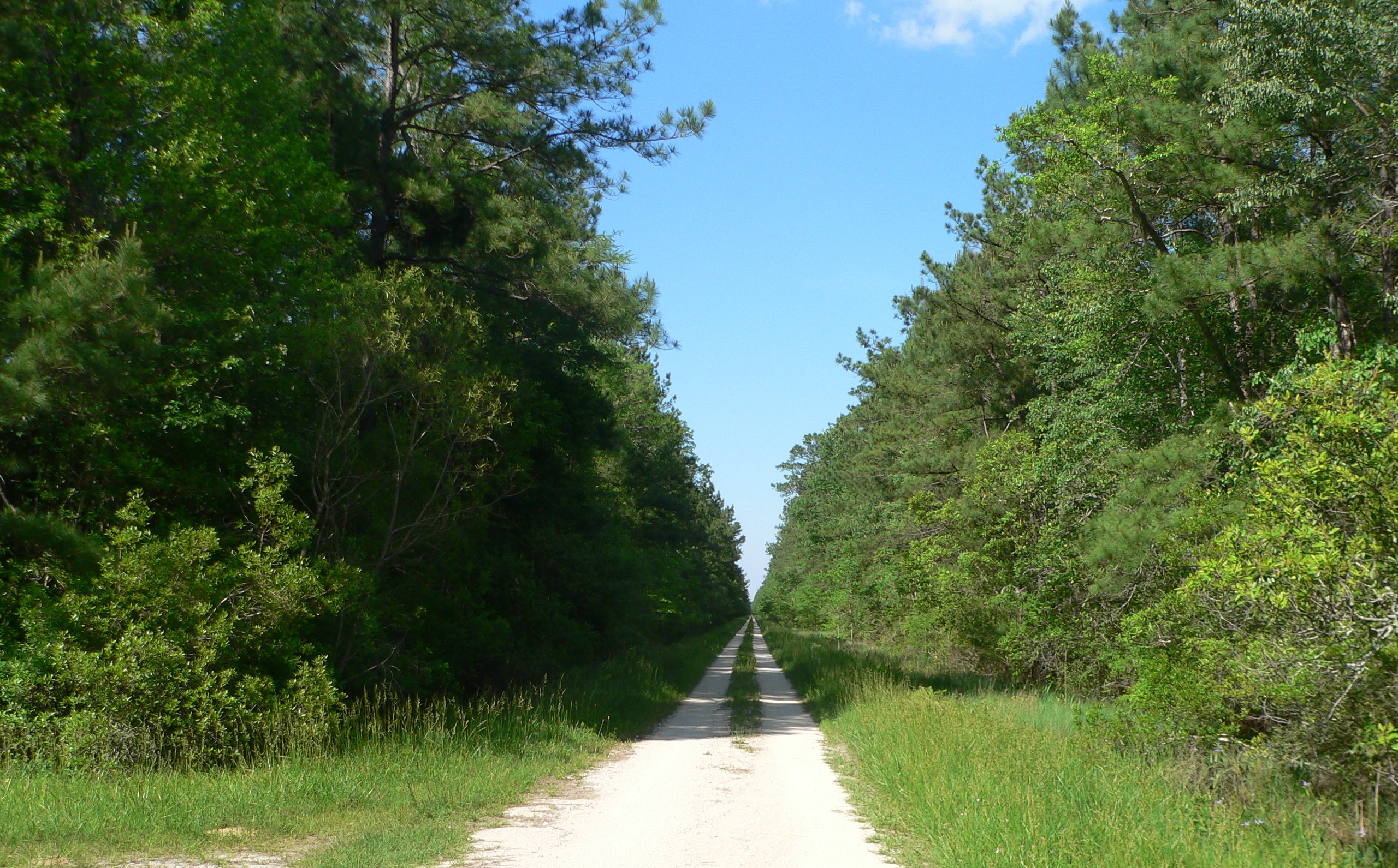 Hell Hole Road (FS158) in Francis Marion National Forest, in Berkeley County, South Carolina; looking northeast from FS158A. Hellhole Bay Wilderness begins southeast (right) of the road.